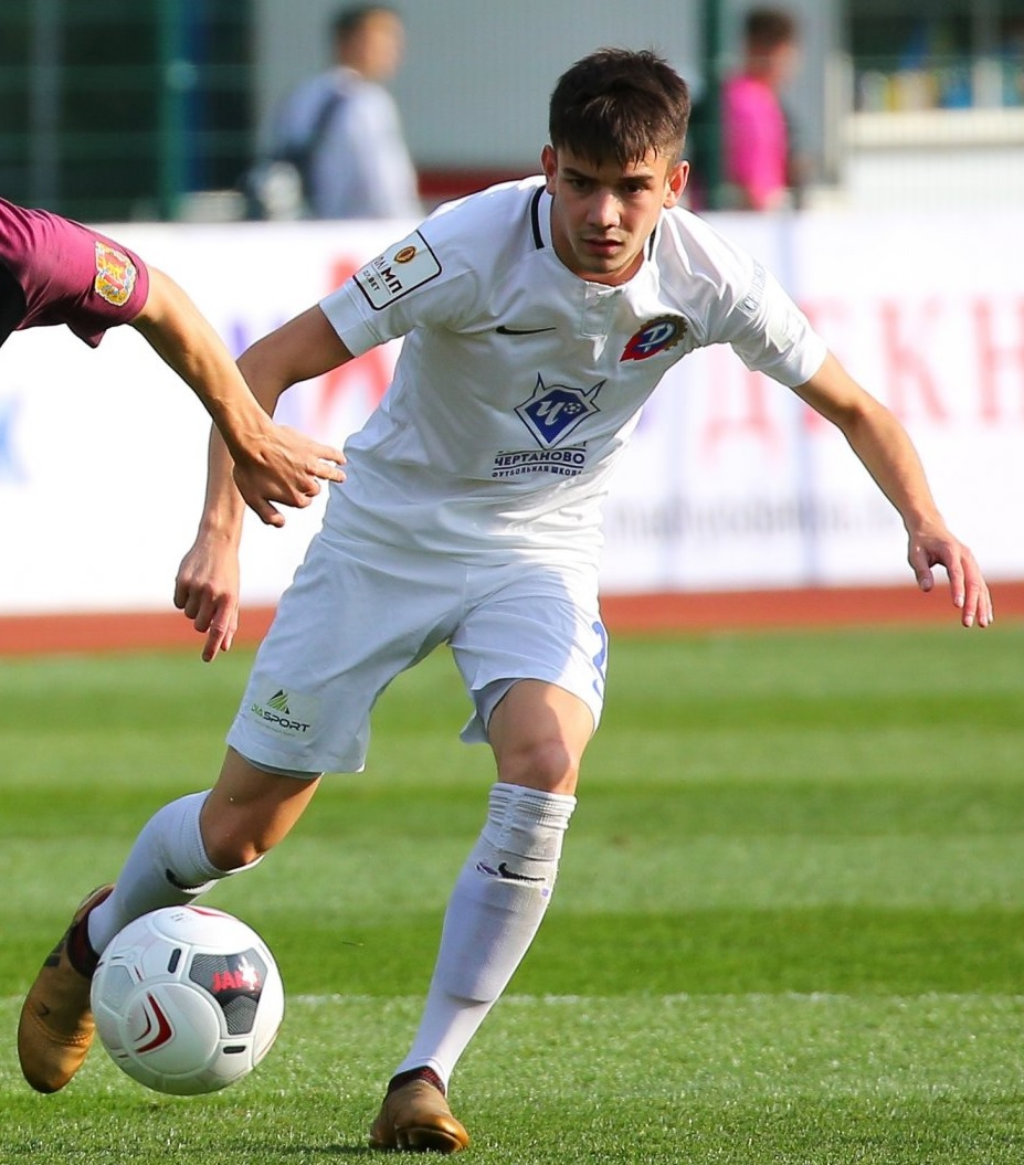 Danil Prutsev with FC Chertanovo Moscow in a game against FC Yenisey Krasnoyarsk.